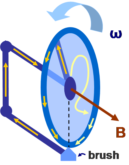 Possible paths for finding EMF